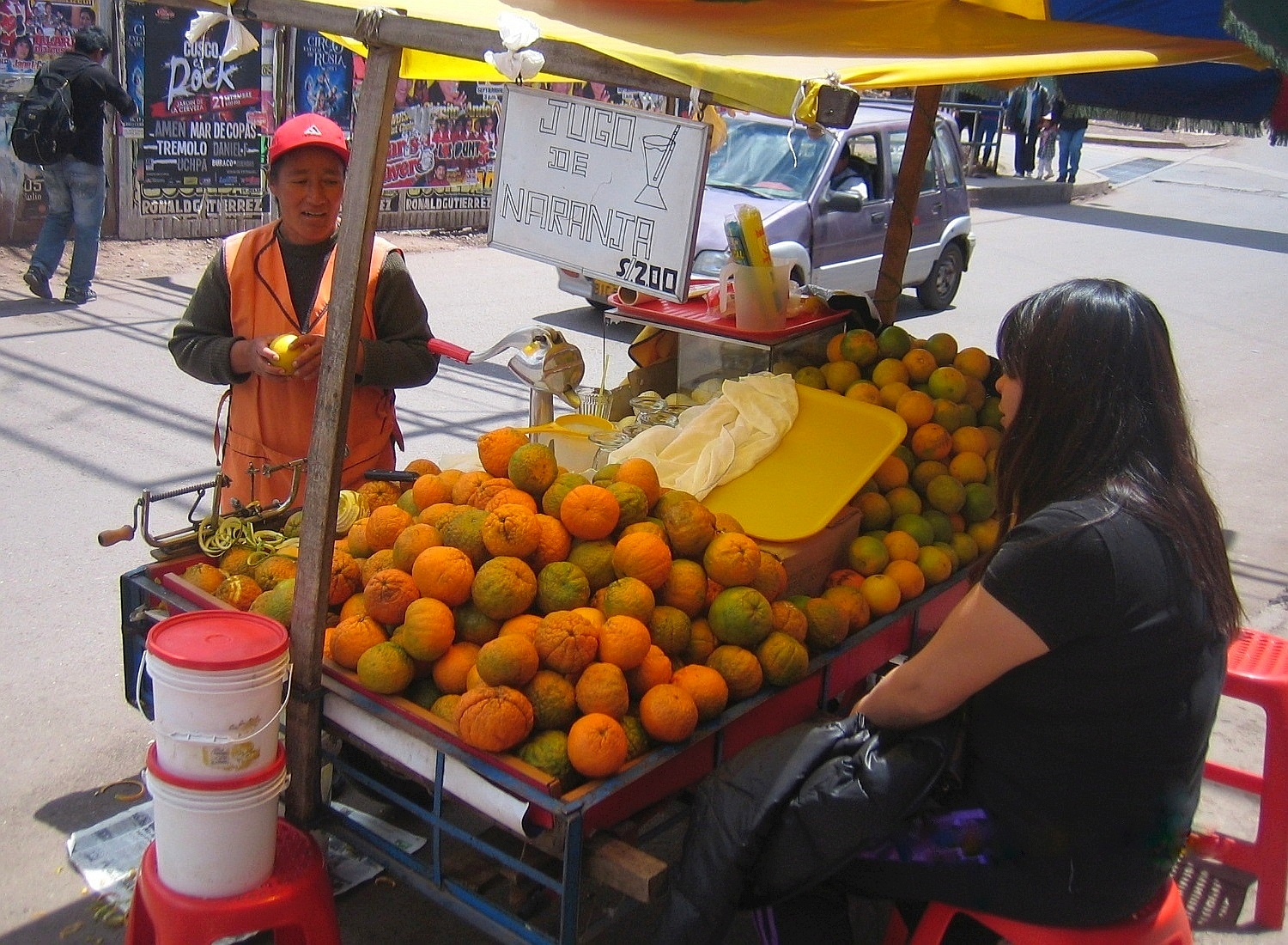 Fresh orange juice stall in Cusco (Peru)